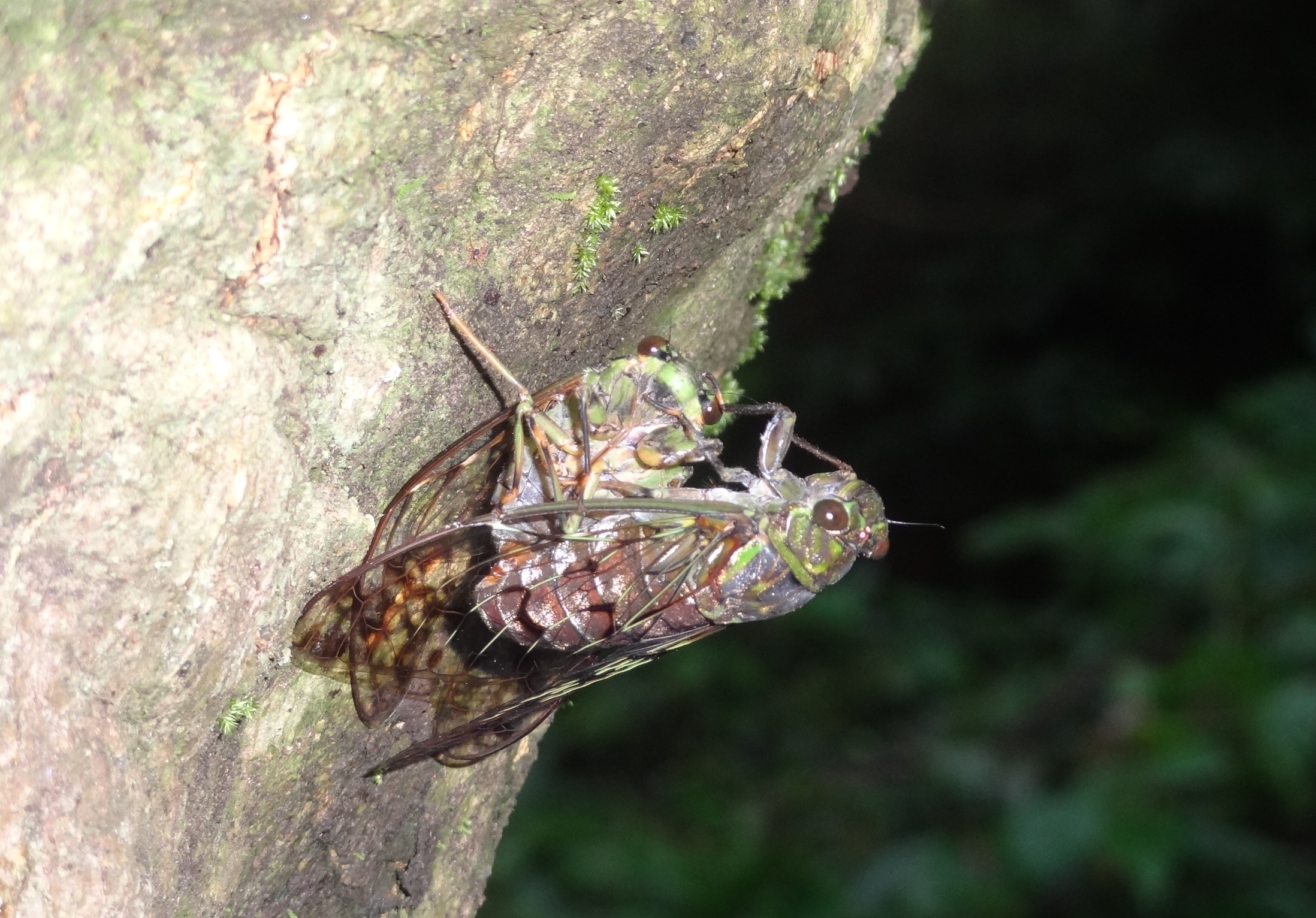 Mating Cricket